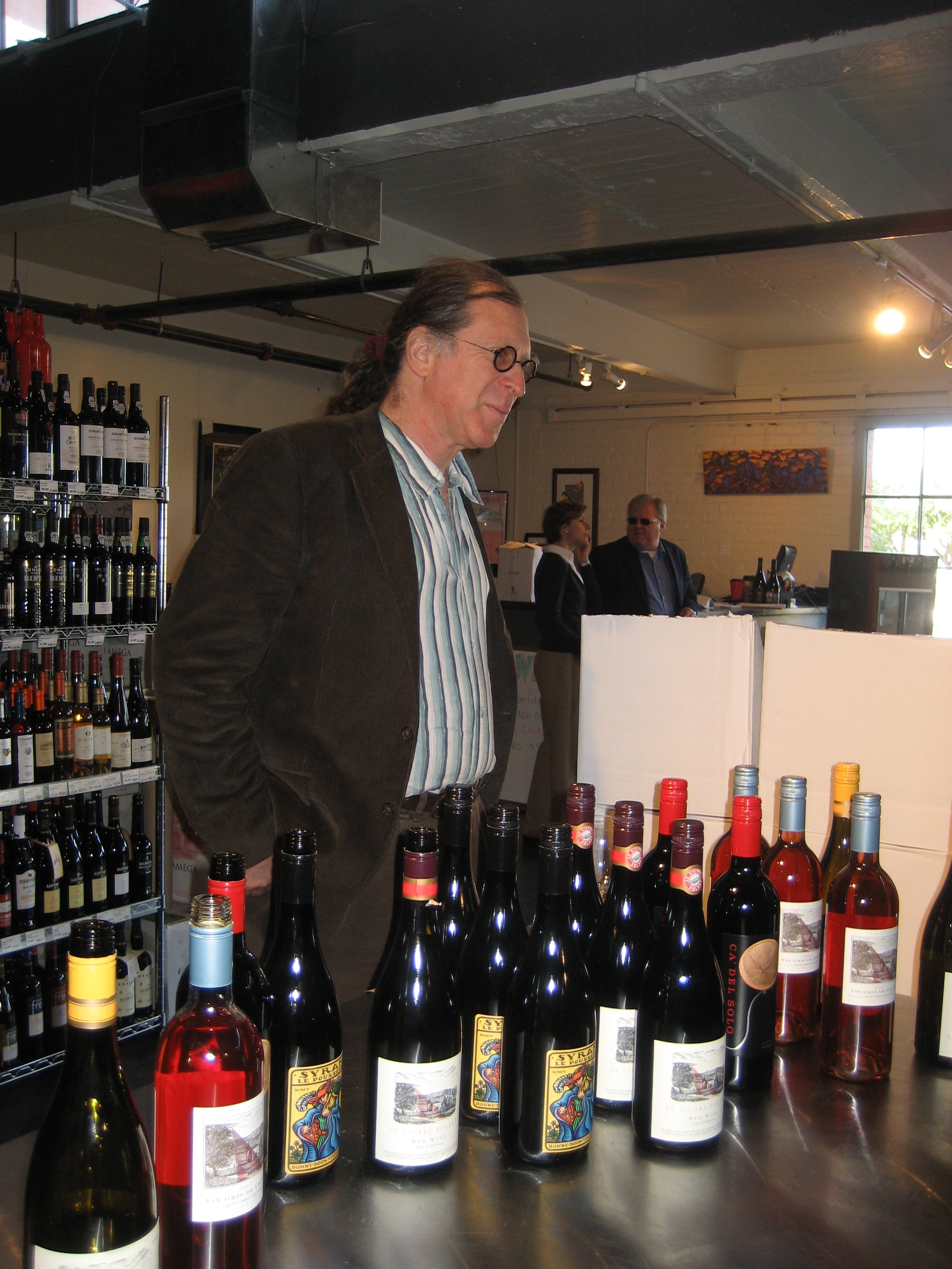 Randall Grahm, head of Bonny Doon Vineyard wine company of California, at a tasting of his products at a wine shop in New Orleans